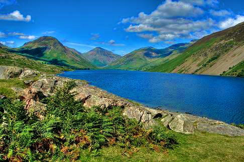 Wastwater, Lake District, England.Wastwater, Lake District, England